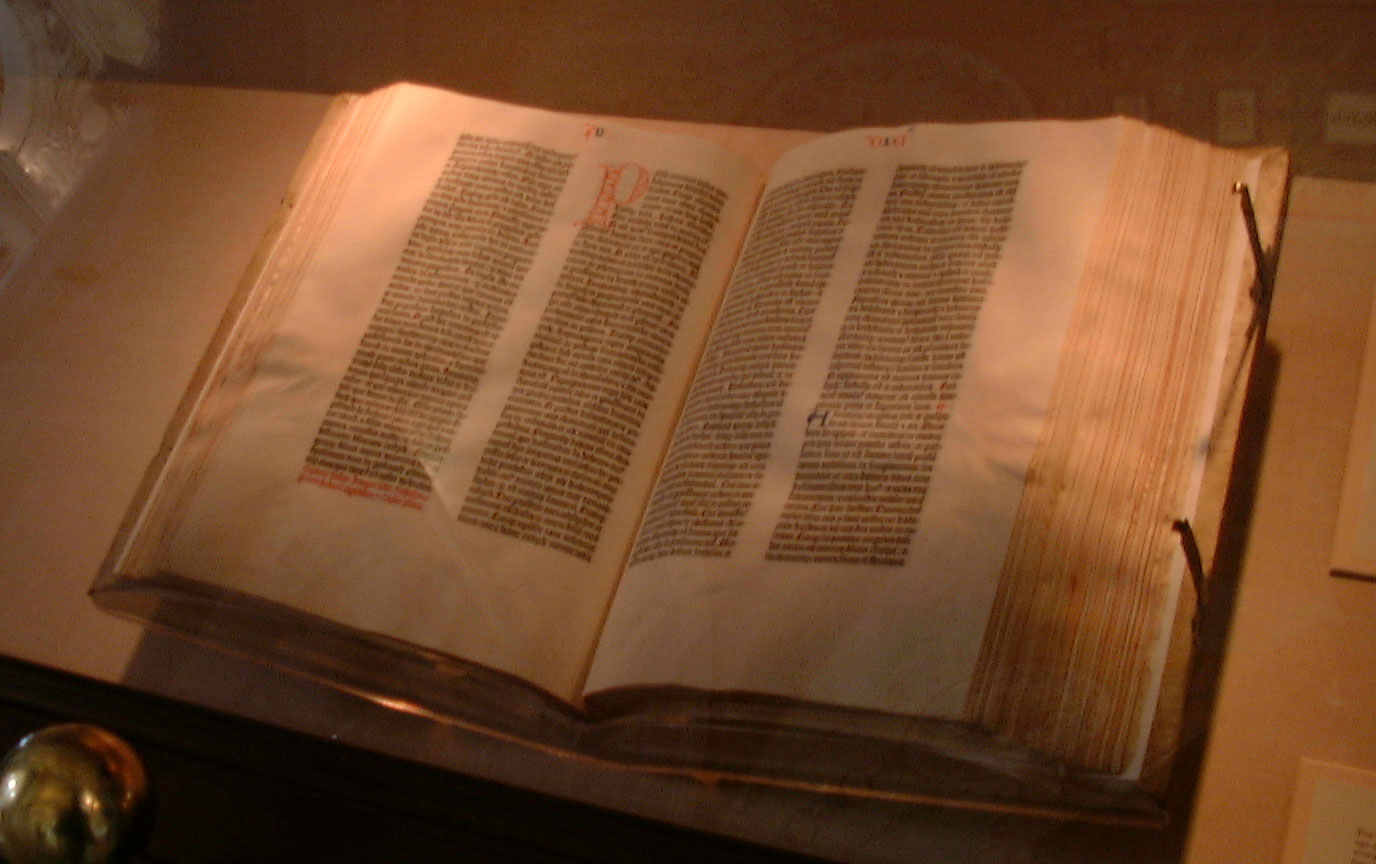 One copy of the 42 line Gutenberg Bible on display at the Library of Congress, Washington DC